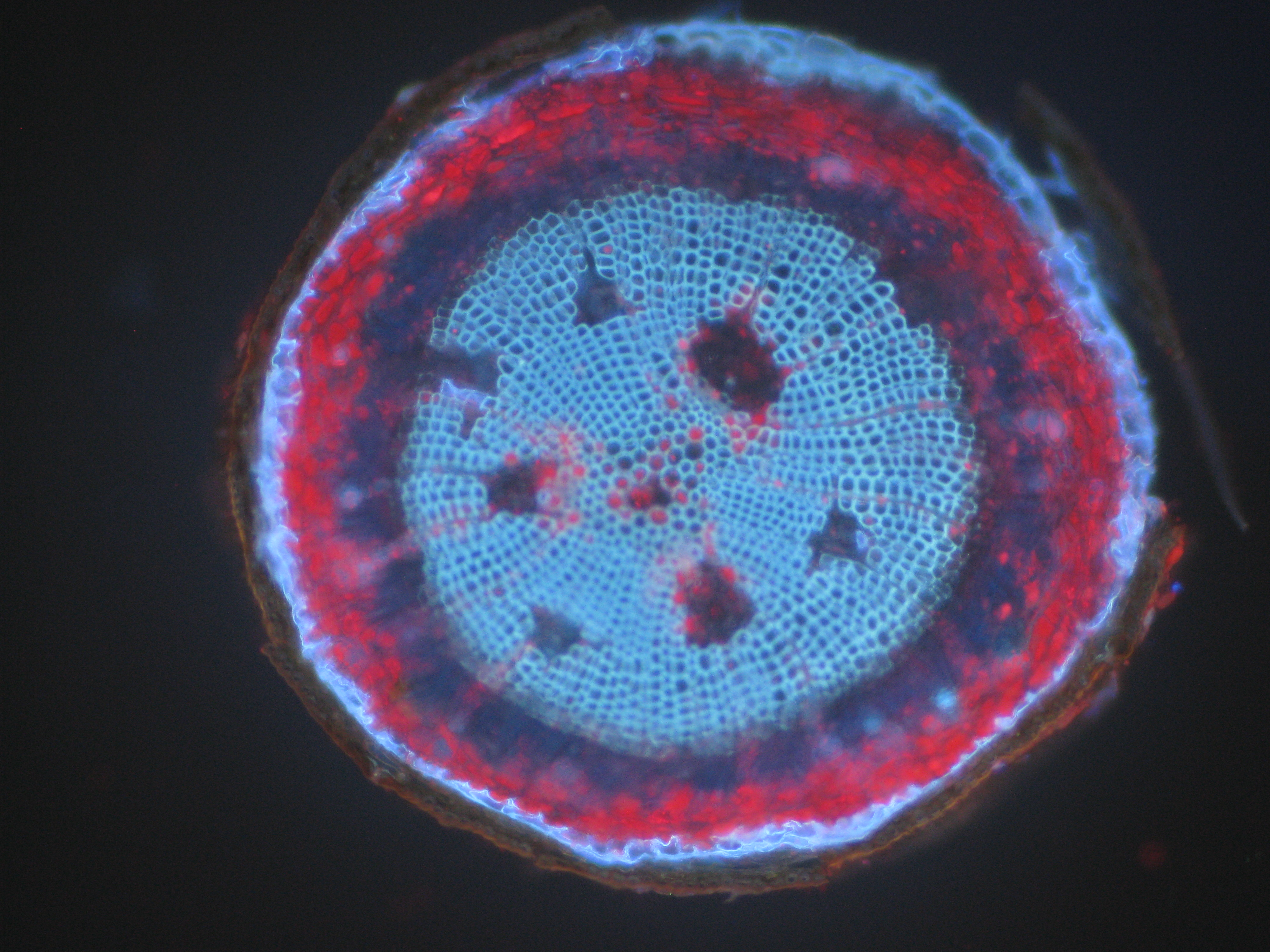 Norway spruce seedling hypocoty cross sectionl age 6 weeks, autofluorescence.